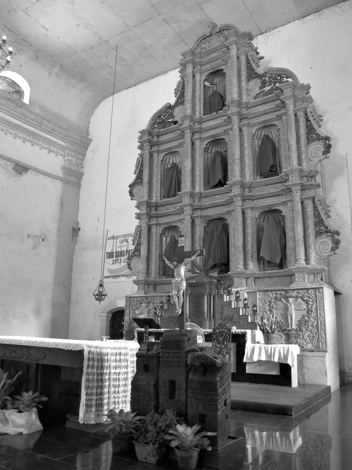 The Sanctuary with its intricately carved wood work by Joseph Bergaño or "Sarhento Itak."